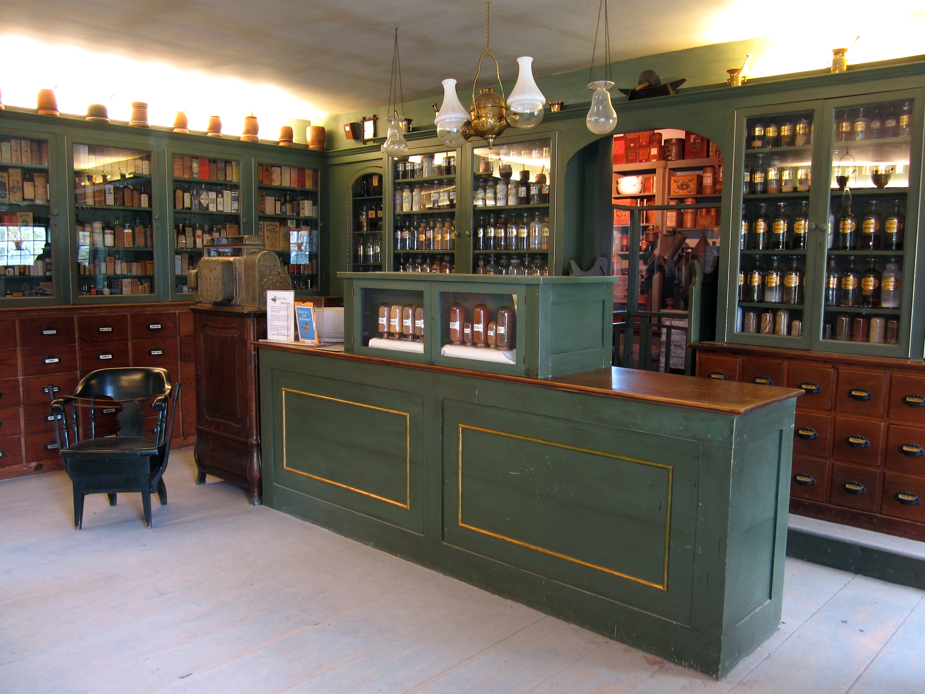 Interior of the Apothecary Shop located at Shelburne Museum, Shelburne, Vermont. Right side of building interior.